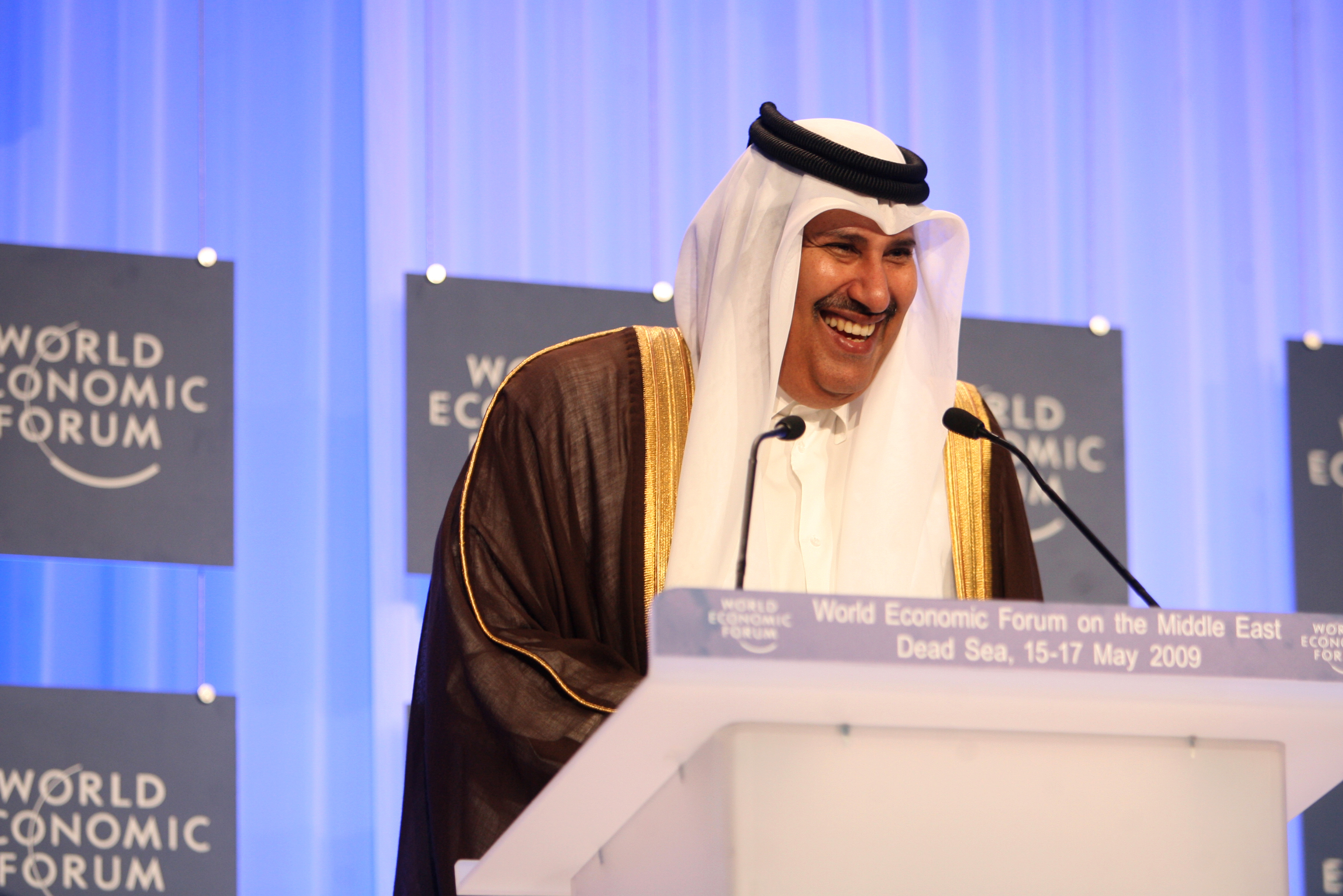 DEAD SEA/JORDAN,15MAY09 - Qatar's Prime Minister Sheikh Hamad bin Jassim bin Jaber al-Thani delivers a speech at the World Economic Forum on the Middle East at the Dead Sea in Jordan, May 15, 2009. Copyright World Economic Forum ( by Nader Daoud